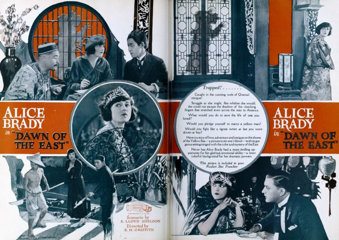 Advertisement for the American drama film Dawn of the East (1921) with Alice Brady, Michio Itō, and Kenneth Harlan, from the insert after page 10 of the September 24, 1921 Exhibitors Herald.